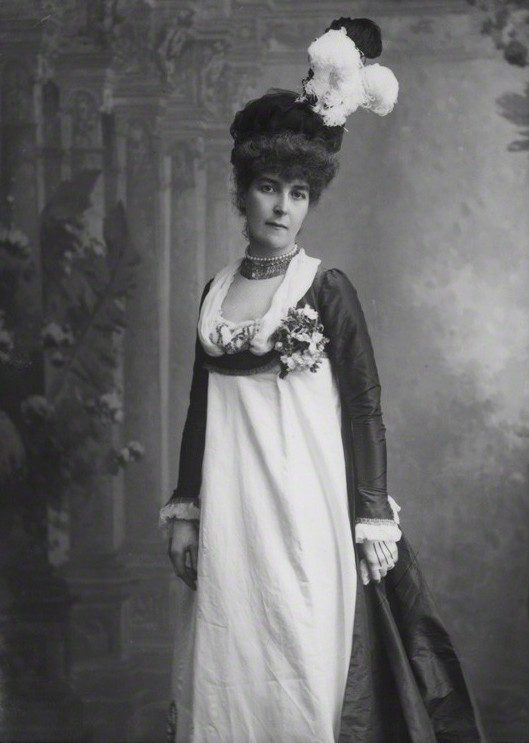 by Alexander Bassano, half-plate glass negative, 1897